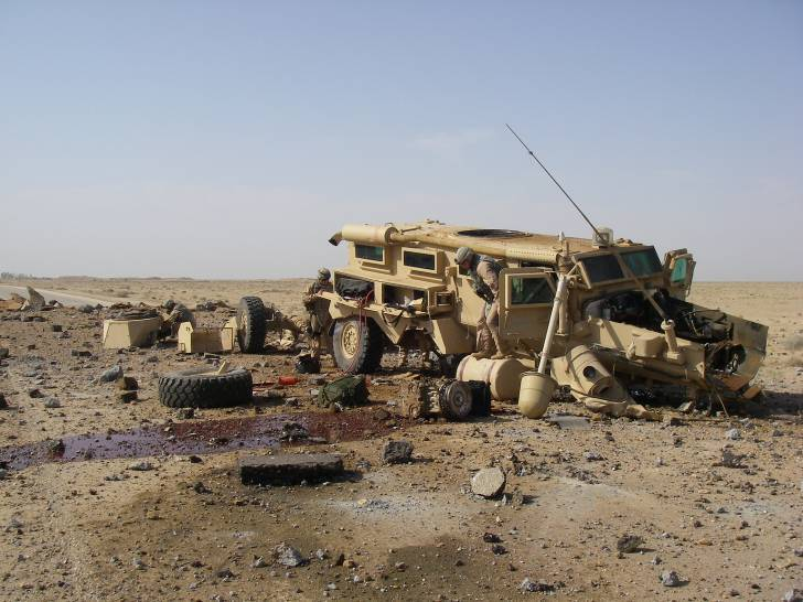 This Cougar was hit in Al Anbar, Iraq by a directed charge IED approximately 300-500 lbs in size. All crew members survived the blast and went out the next day.